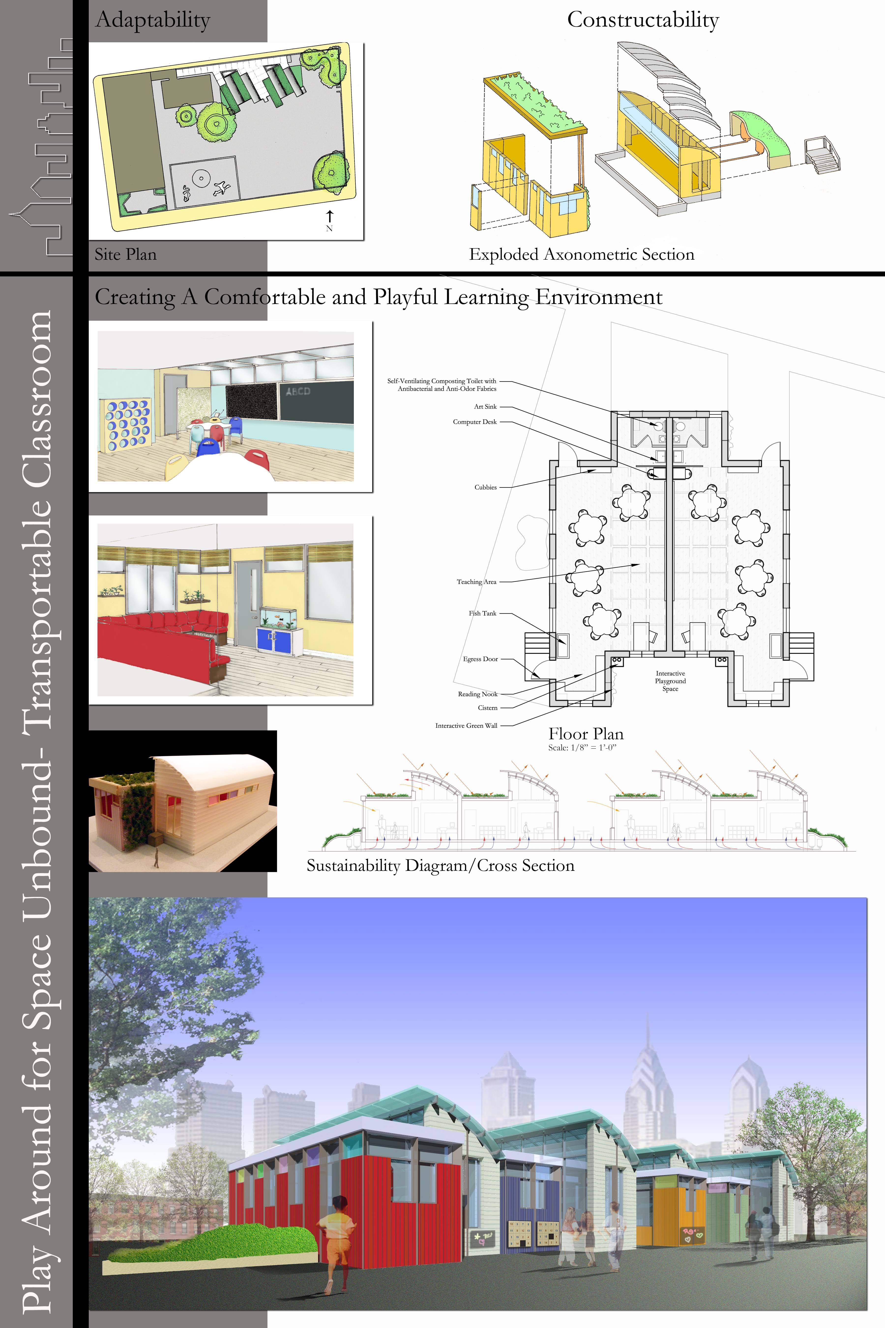 Many students in West Philadelphia currently attend school in portable classrooms that are overcrowded, unsanitary, poorly tempered, poorly lit, and damp. After speaking with Philadelphia students and teachers, our team truly believes that a nurturing and playful classroom environment can foster a successful and enriching education. Our main goal was to satisfy these needs in a sustainable and aesthetically pleasing manner. We reached our goal by including the following: modular panel systems with plenty of options for daylighting, an insulated green roof and wall with rainwater collection, self-ventilating, composting toilets, the use of antibacterial and anti-odor fabrics, under floor heating and cooling system (that reduces asthma and allergies), interactive exterior playground spaces on the facades. The color and playfulness within the classroom and on the facades was implemented because our team felt that students need color, texture, and sensory stimulation to complement their early education. We hope that one day such a classroom will be a commonly used model for the Philadelphia school system and others around the nation.